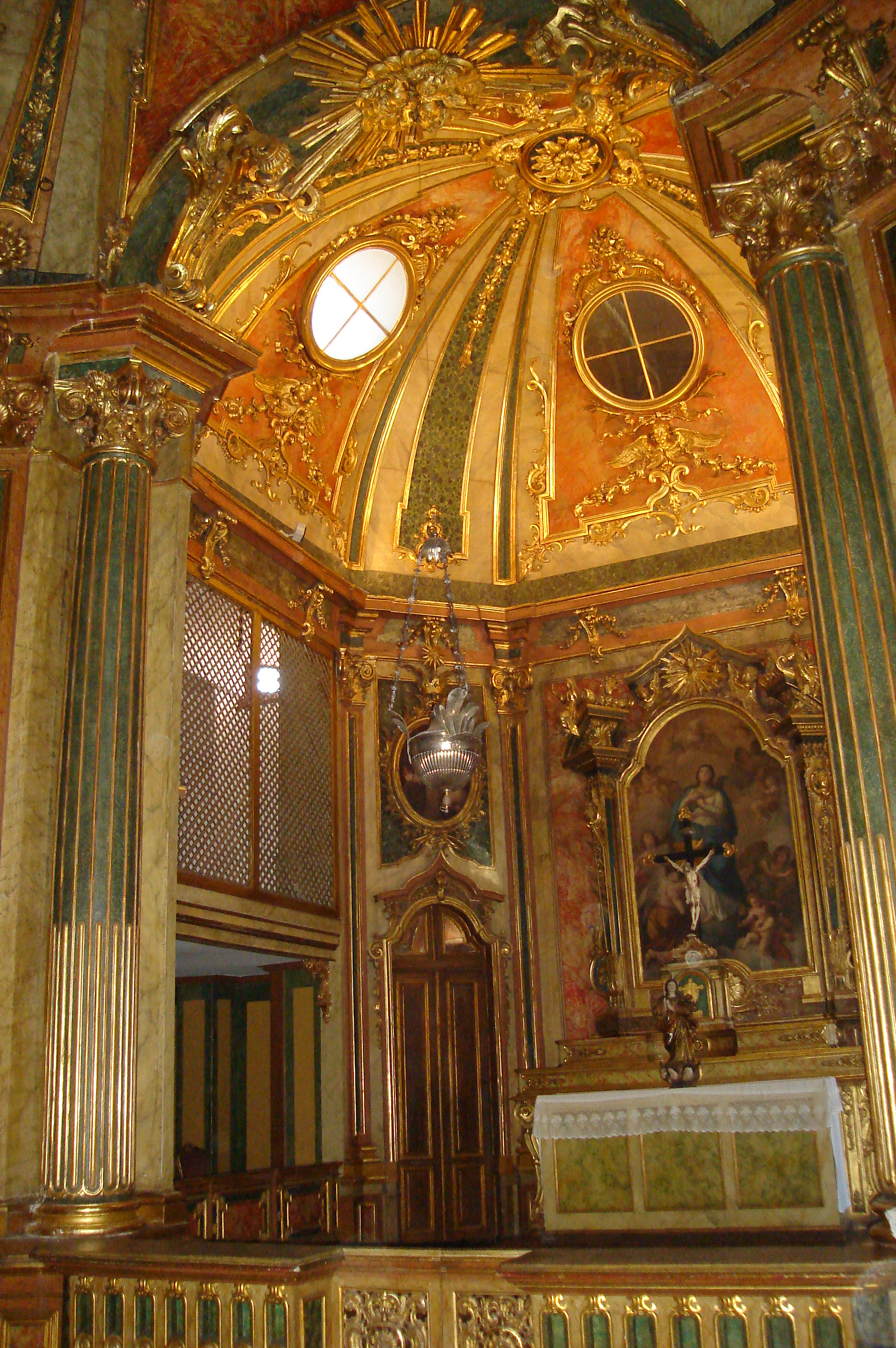 Queluz National Palace, Portugal